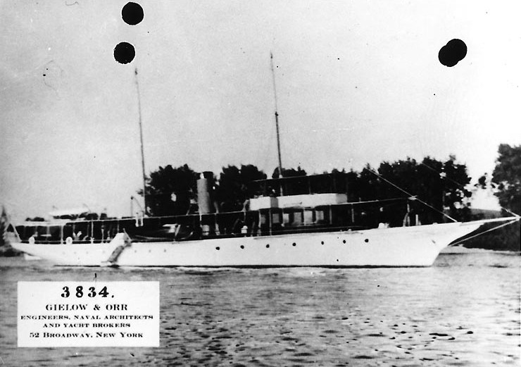 Steam yacht Zoraya, prior to her 1917-1919 United States Navy service as USS Zoraya (SP-235).